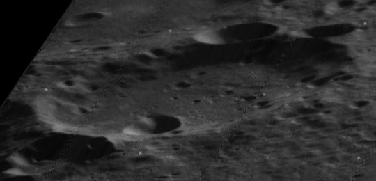 Oblique view of Bellinsgauzen, on the far side of the moon, facing west.